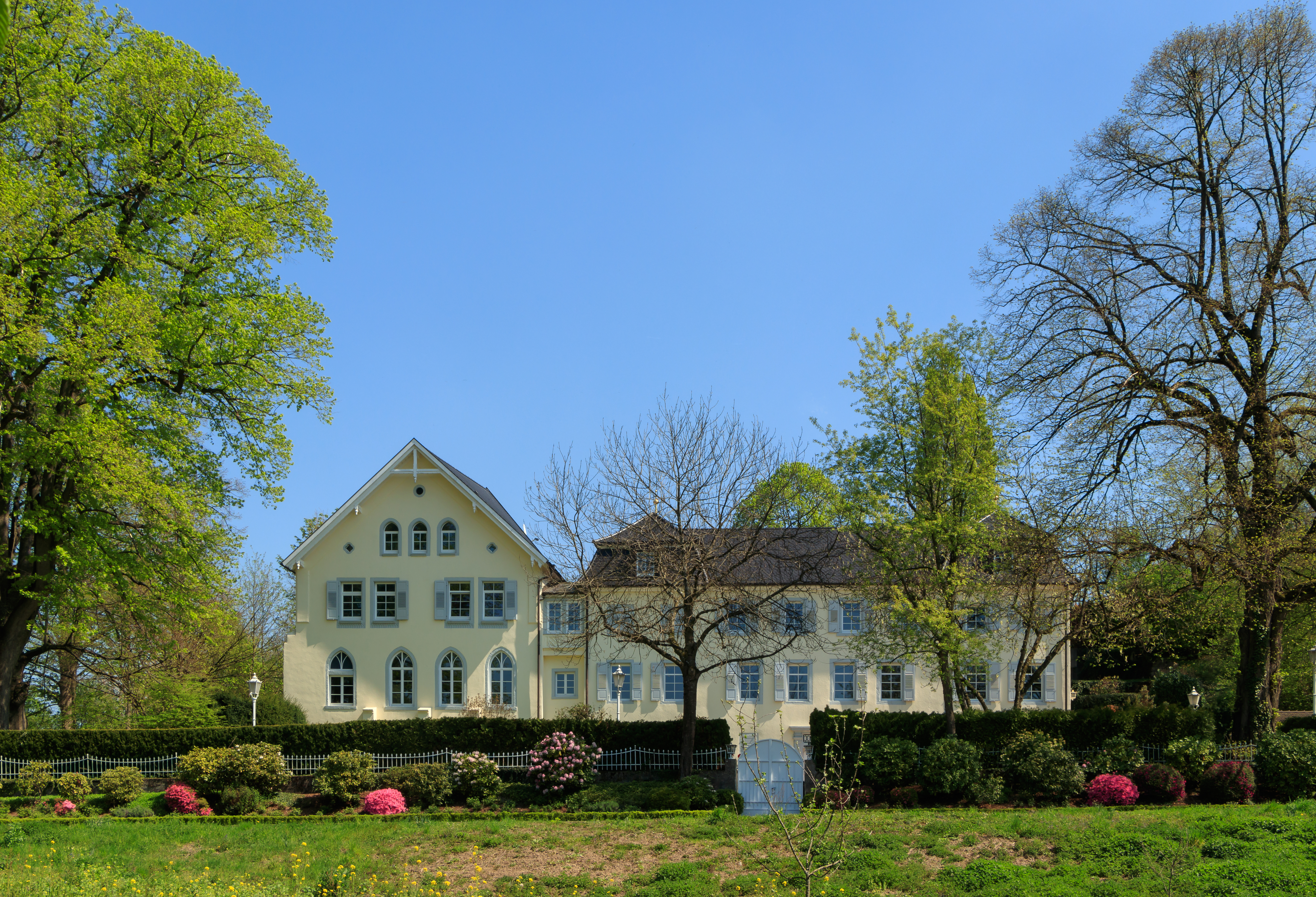 Aubach castle at Lauf, Baden-Württemberg, Germany.